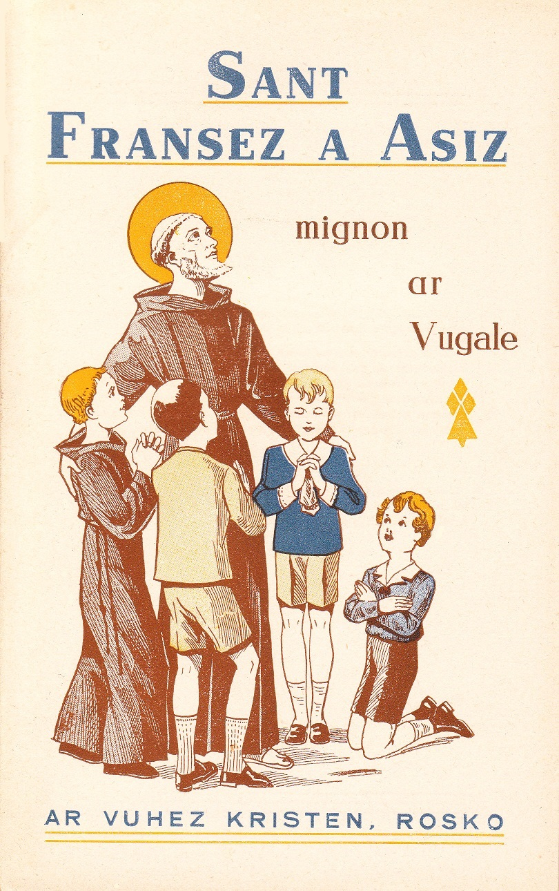 Cover of "Sant Fransez a Asiz", in Breton-language, published in 1941.